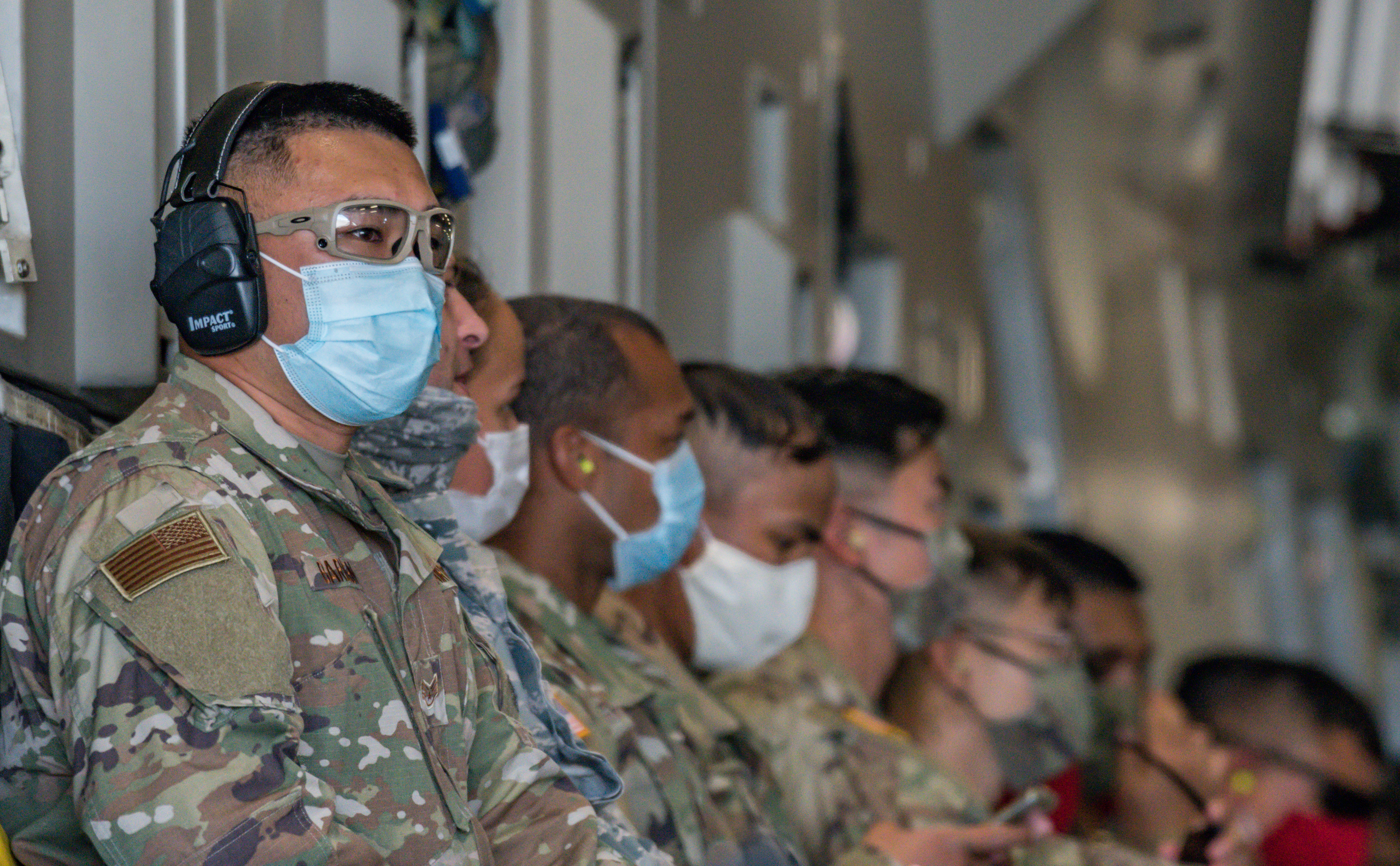 Members of the Hawaii National Guard loaded on a C-17, from the 204th Airlift Squadron, Hawaii Air National Guard which made several runs of troops to Maui, Kauai, and Hawaii to assist with the COVID-19 response, April 15, 2020, Kalaeloa, Hawaii. An additional 800 Hawaii National Guard members were activated over the previous week to provide further support to all counties. (US Army National Guard photo by Sgt. John Schoebel)